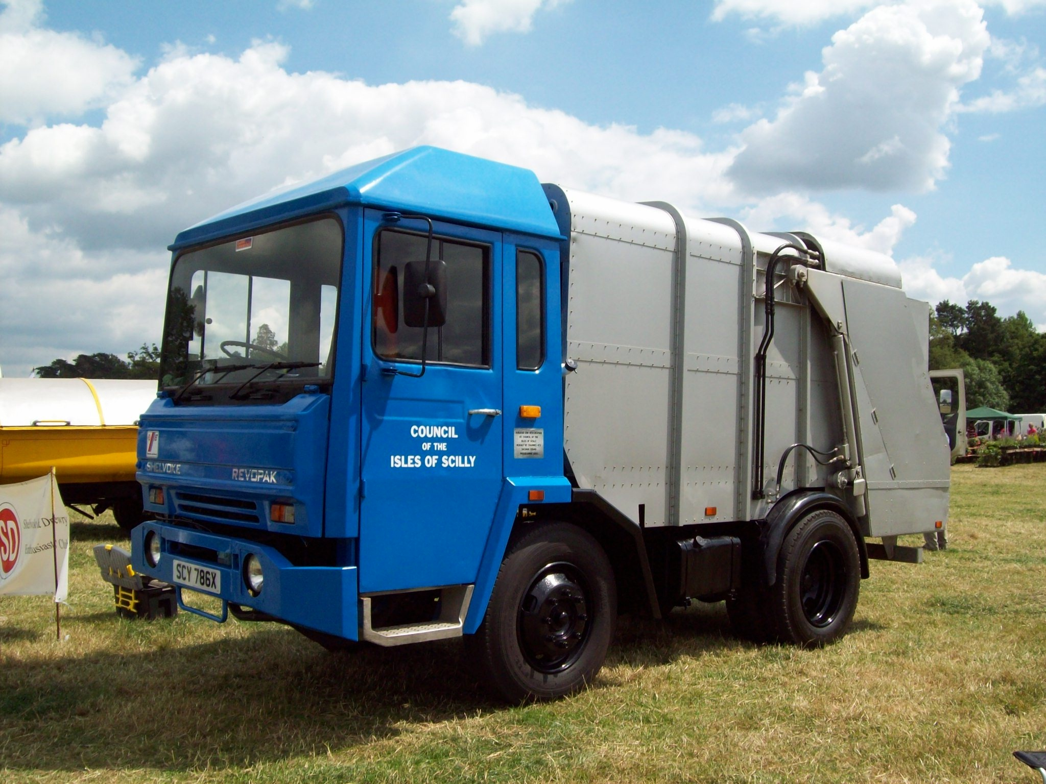 Shelvoke & Drewry PN type Reg. No. SCY 786X Ex-Isles of Scilly seen at Edenbridge Rally on 21st June 2009.